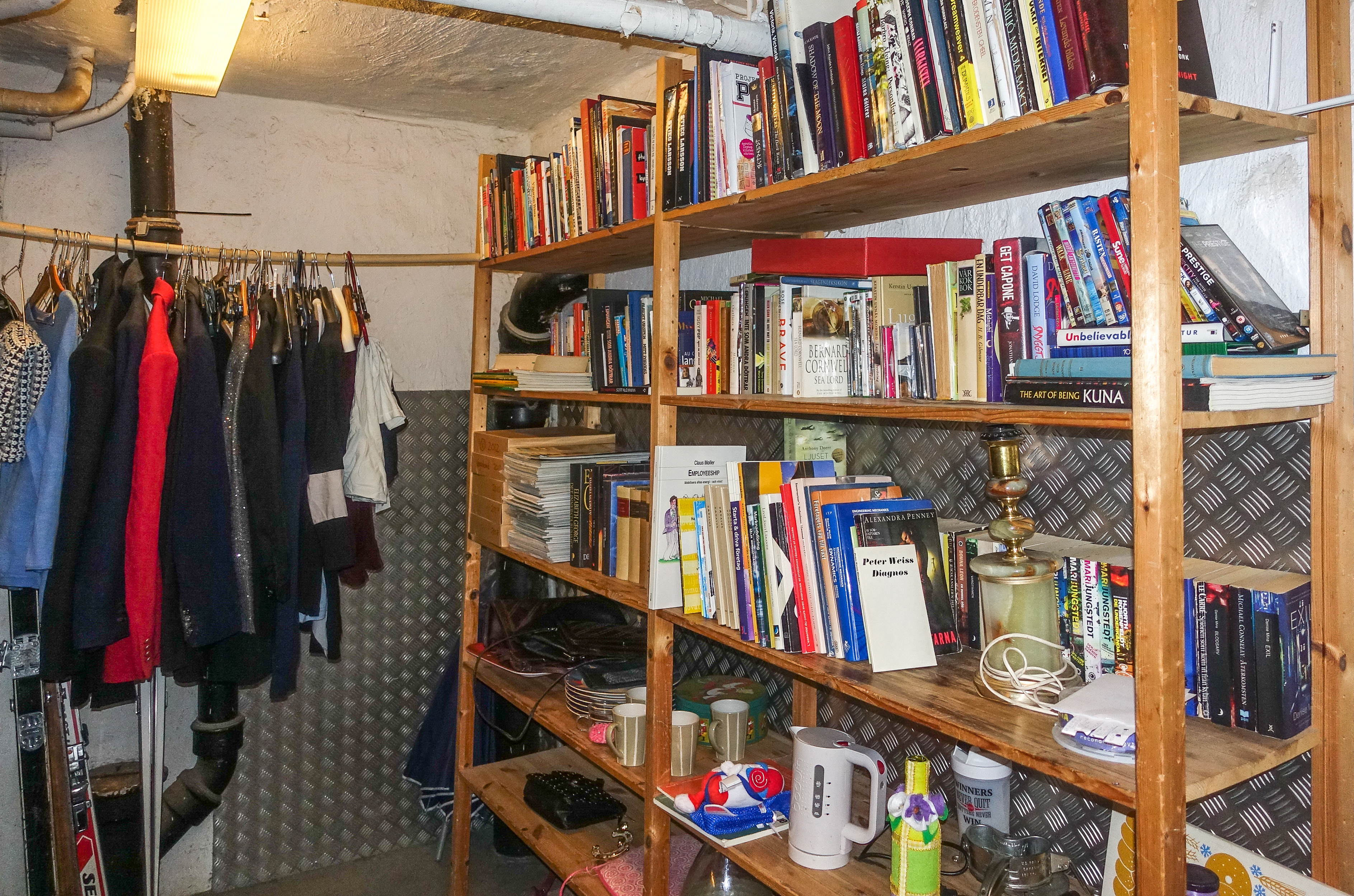 Recycling room in Housing cooperative in Stockholm in 2020.